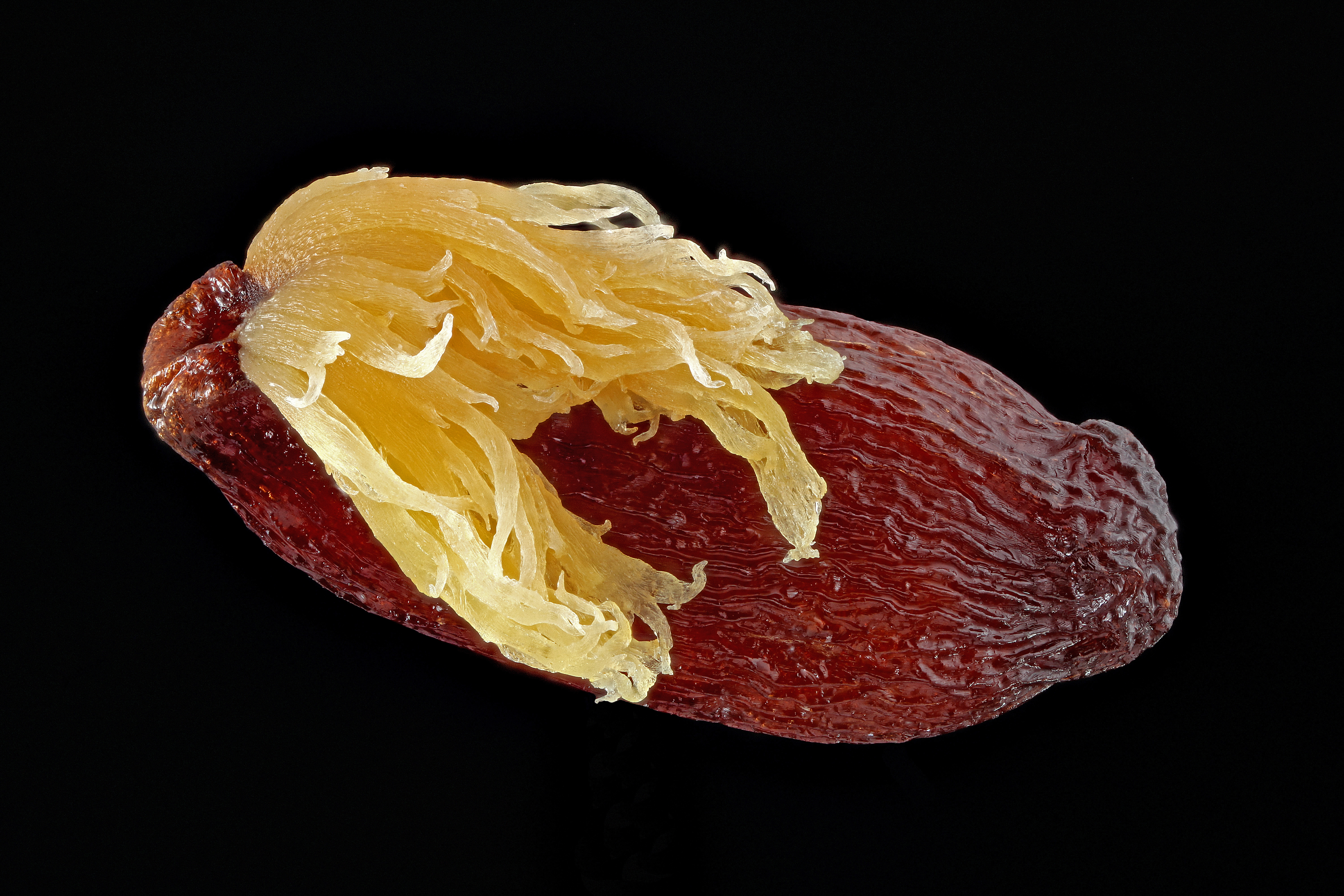 Seed of Jeffersonia diphylla (Twinleaf; Berberidaceae) with a white or yellowish appendage called an elaiosome. This fat body attracts ants, which carry the seed to their nest. Seed dispersal by ants is known as myrmecochory.